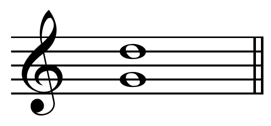 Perfect fifth on G. Created by Hyacinth (talk) 23:01, 3 July 2010 using Sibelius 5.